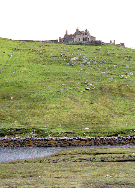 "Most haunted house in Shetland" Well, that's what it says in the guidebooks! Windhouse, seen from the west across the neck of Whale Firth, on the Isle of Yell